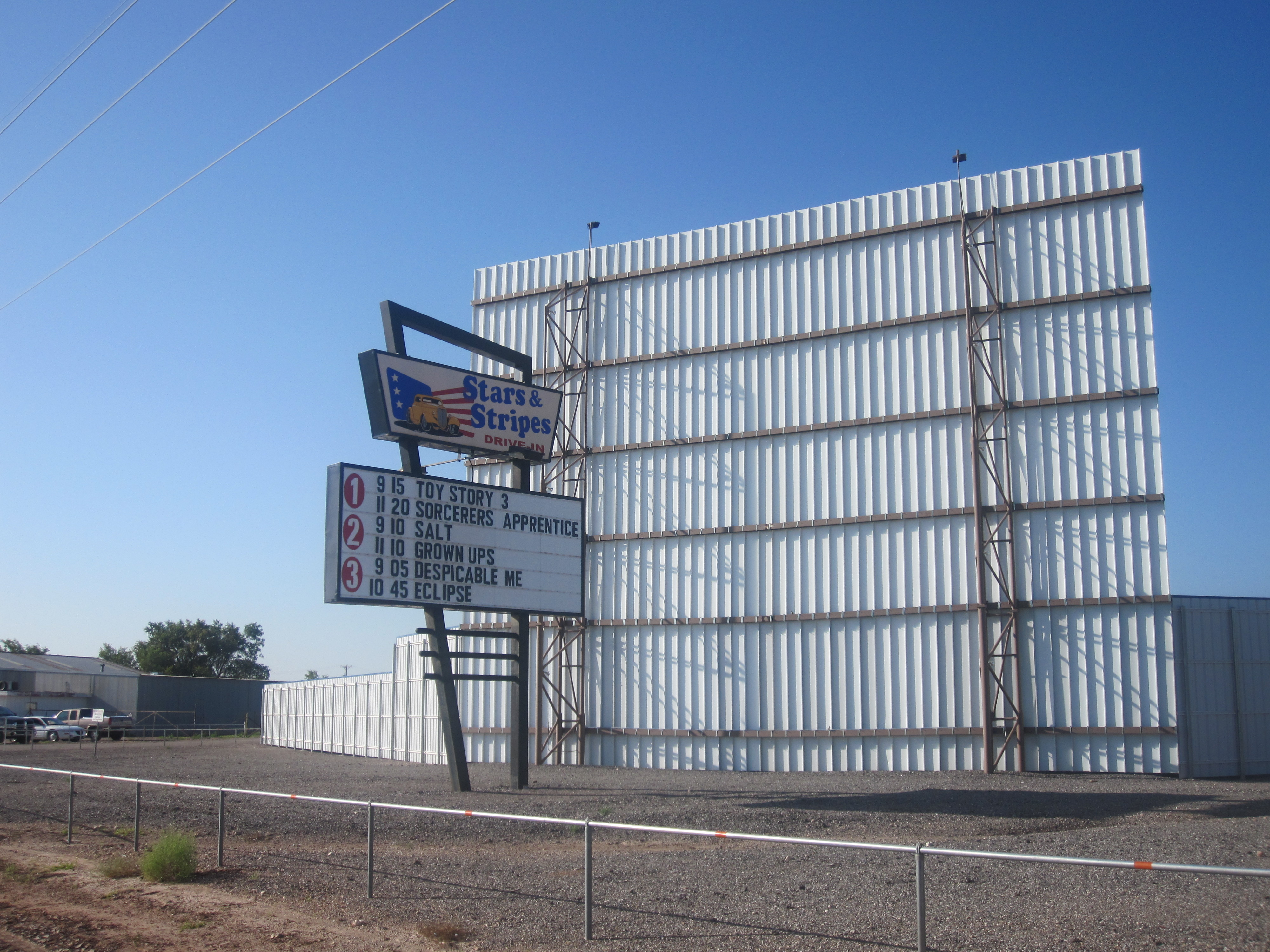 I took photo with Canon camera in Lubbock, TX.